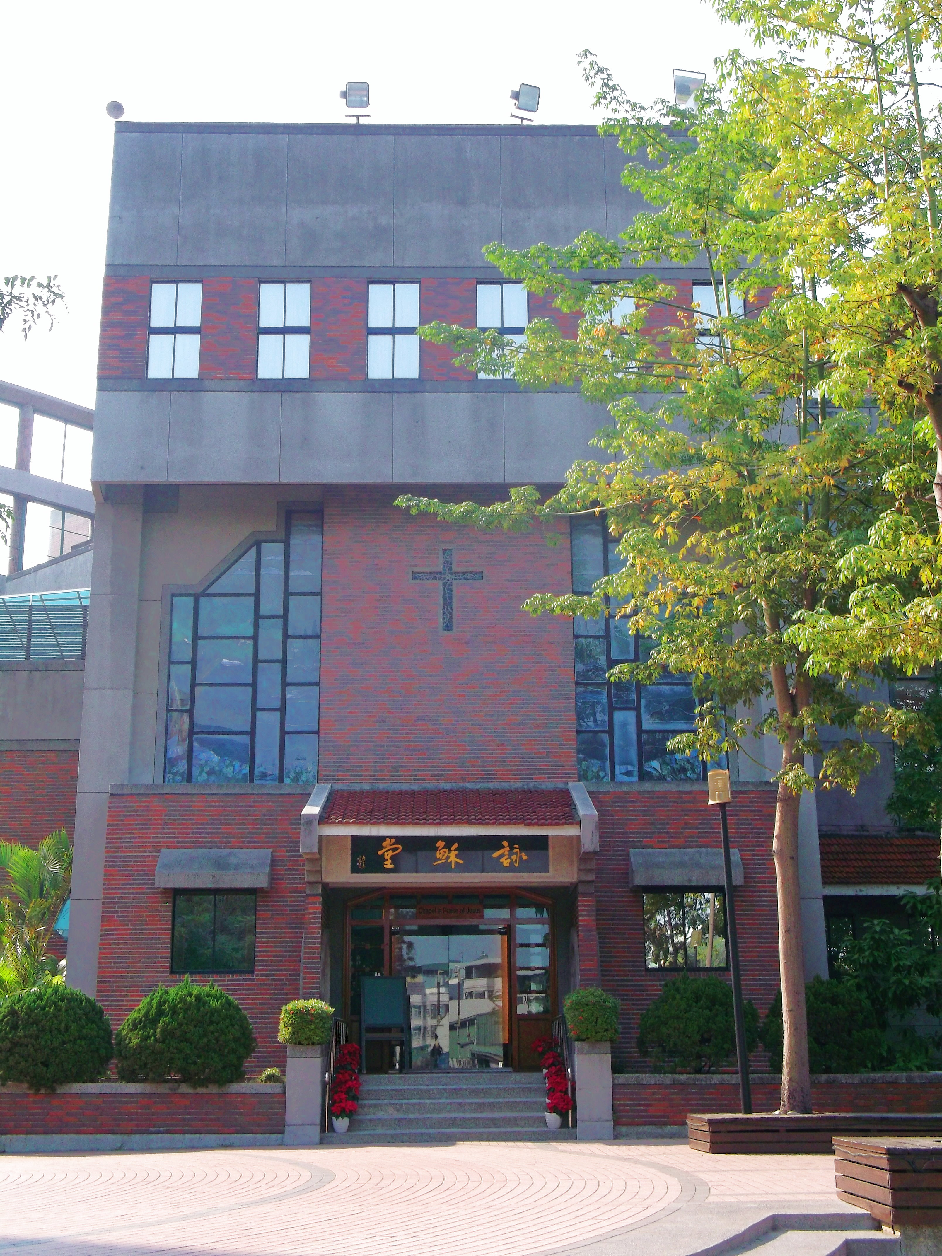 Wenzao College, Yongsu Chapel